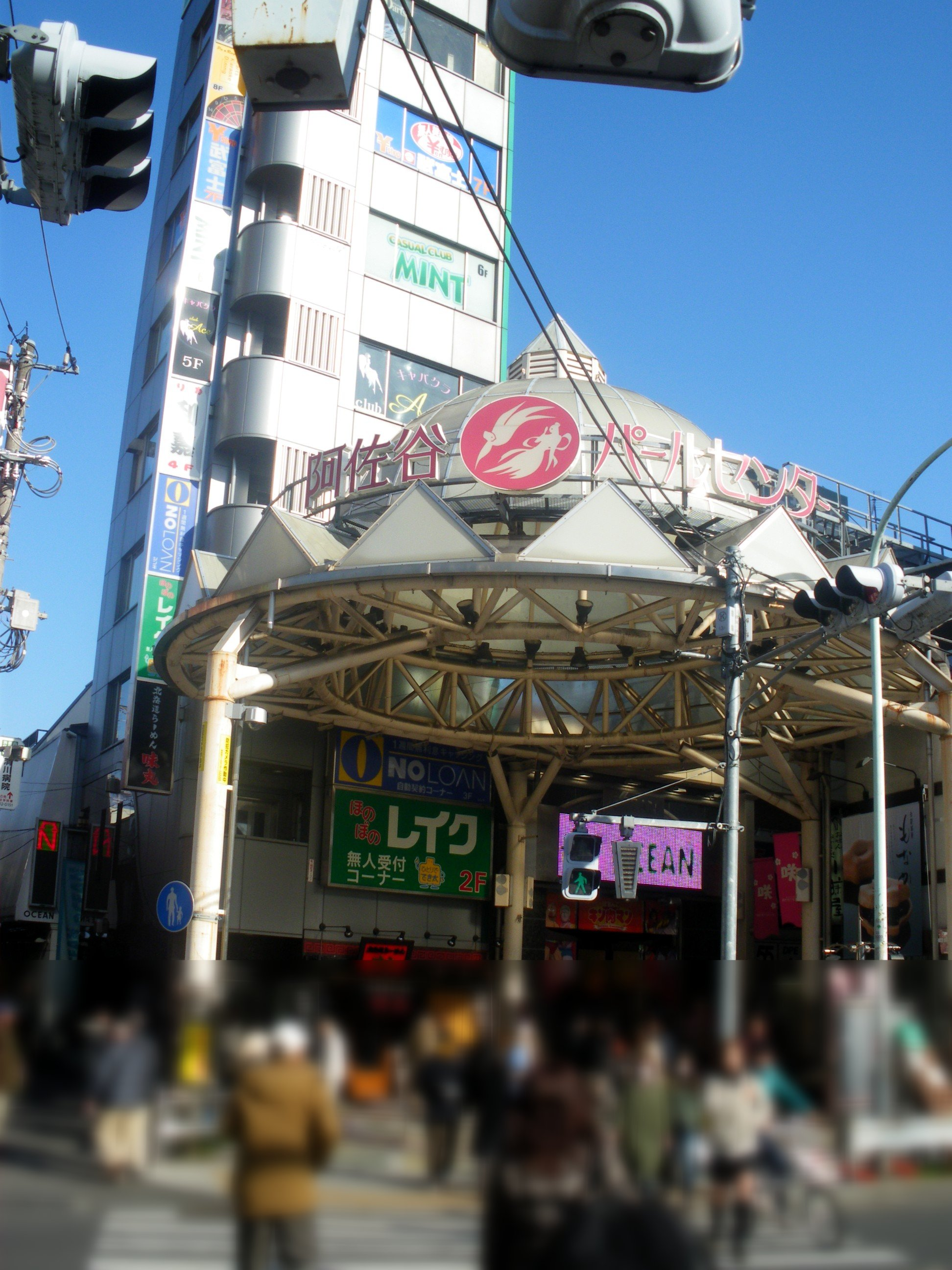 A photo of Asagaya Pearl Center, a shopping street at Asagaya station,Suginami-ku,Tokyo,Japan.